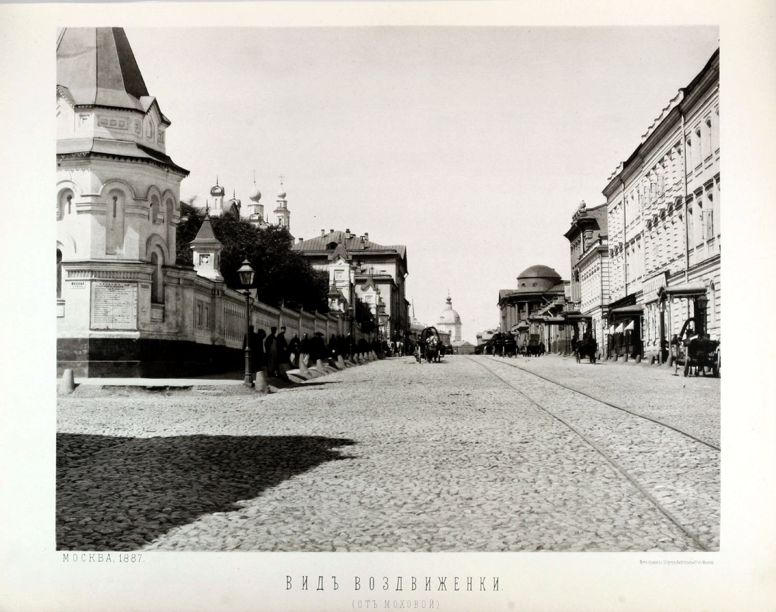 Plate 11: View of Kremlin from Troitsky Bridge.